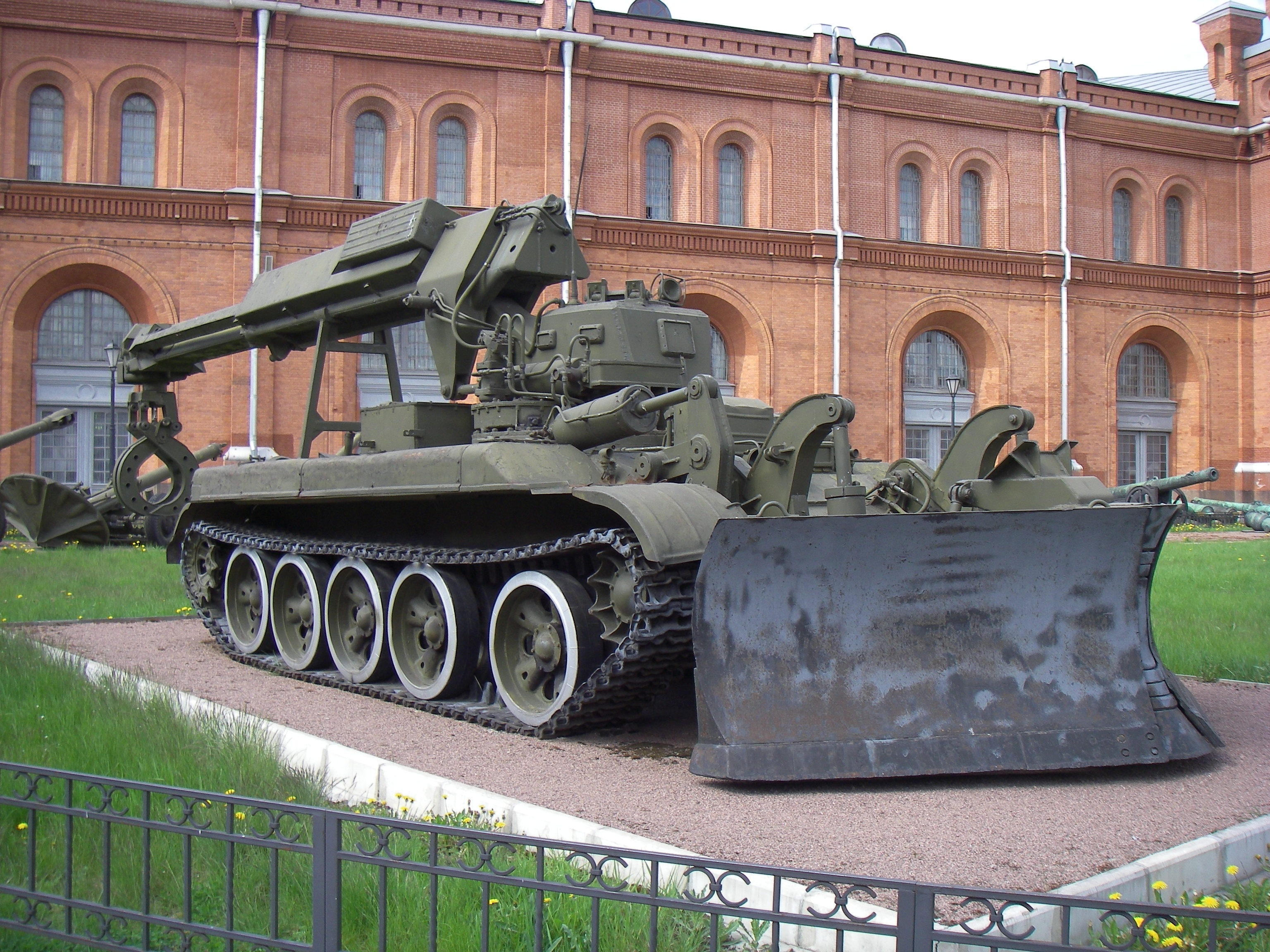 Counter Obstacle Vehicle IMR (Inzhenernaya mashina razgrazhdeniya) in Saint Petersburg Artillery museum